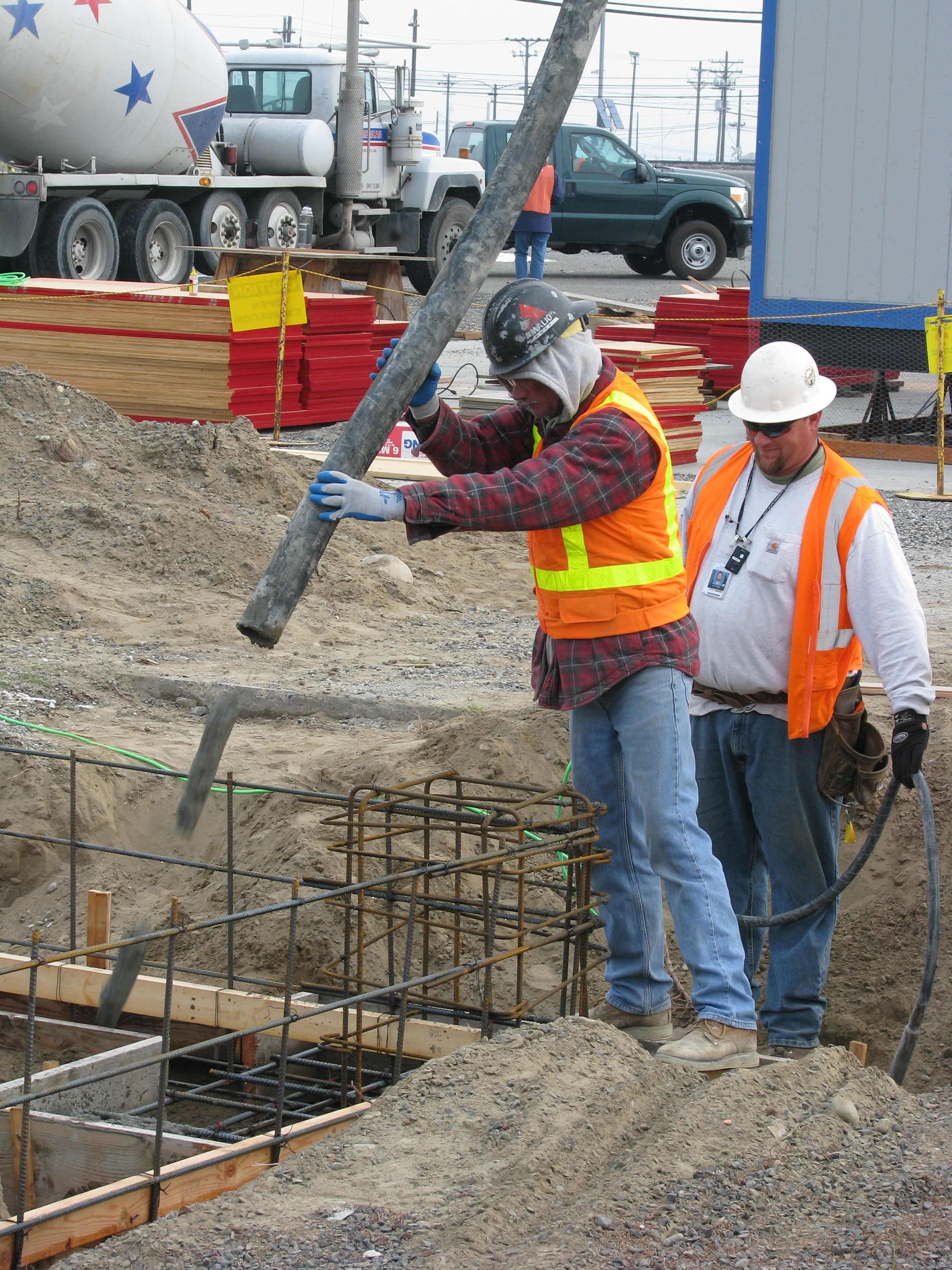 Workers place concrete footings for a new 10,000-square-foot storage facility being built at Hanford. The Recovery Act-funded building will provide a centralized storage area for materials currently being housed in other site facilities, providing a safer and more efficient distribution system to support Hanford maintenance and operations activities.